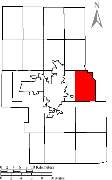 Made by the US Census and altered by myself to highlight the township